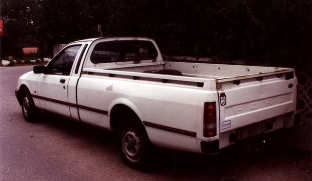 Ford Sierra P100, Model 1991